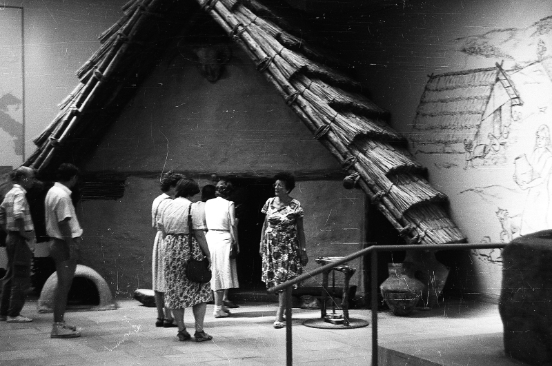 Museum für Ur- und Frühgeschichte Thüringens